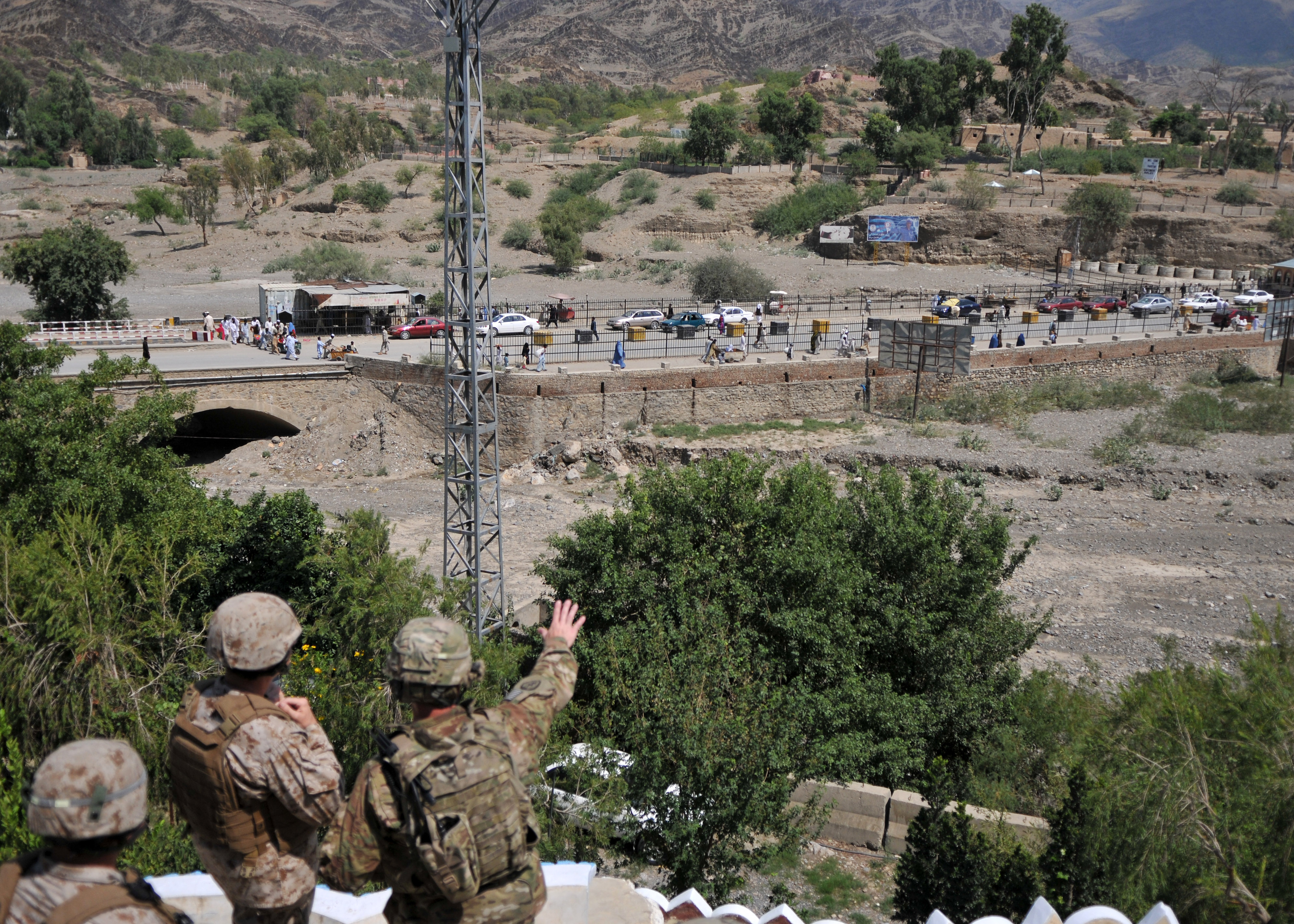 Marine Corps Gen. John R. Allen, commander of NATO and International Security Assistance Force troops in Afghanistan, visited military and civilian personnel assigned to Regional Command-East, Nangarhar province, Sept. 5. Allen received a briefing and walking tour of Torkham Gate area of operations during his visit and thanked U.S. and Afghan forces for their service and sacrifice. ISAF is a key component of the international community's engagement in Afghanistan, assisting Afghan authorities in providing security and stability while creating the conditions for reconstruction development. (U.S. Air Force photo/Master Sgt. Michael O'Connor) (Released)